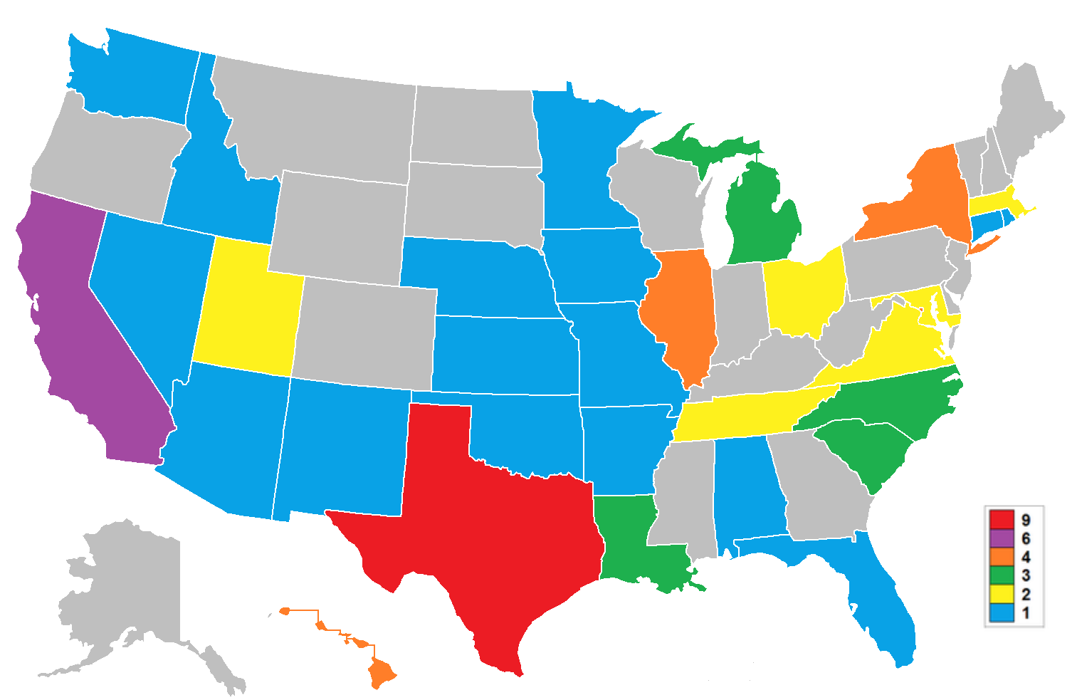 Miss USA Winners rank map